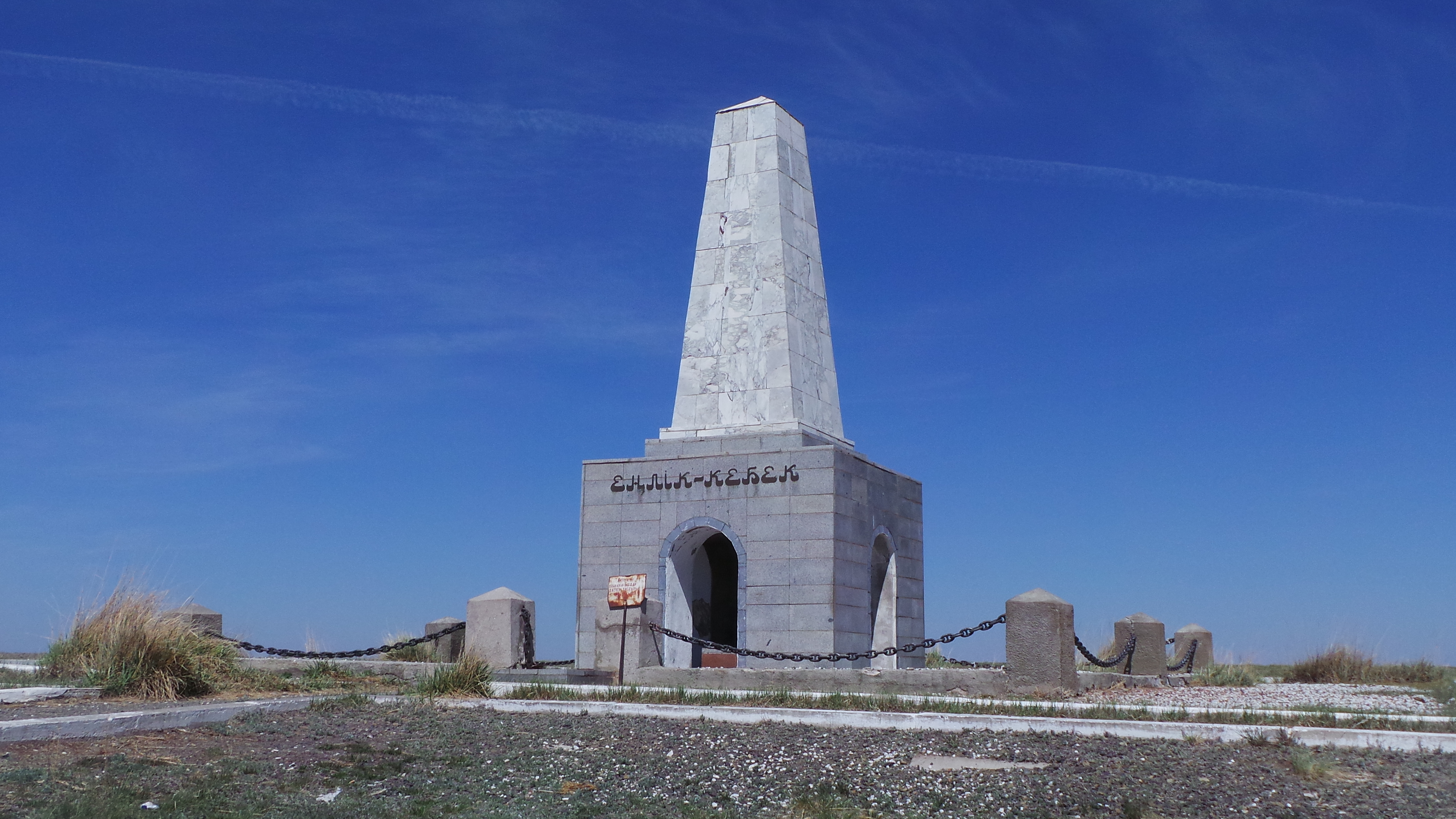 Enlik-Kebek Monument